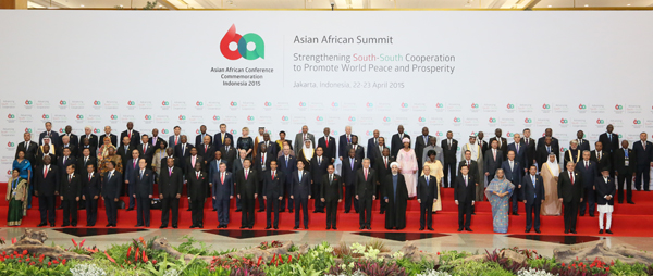 Asian, African leaders attend attended Asia-Africa Conference at in Jakarta on April 22, 2015.